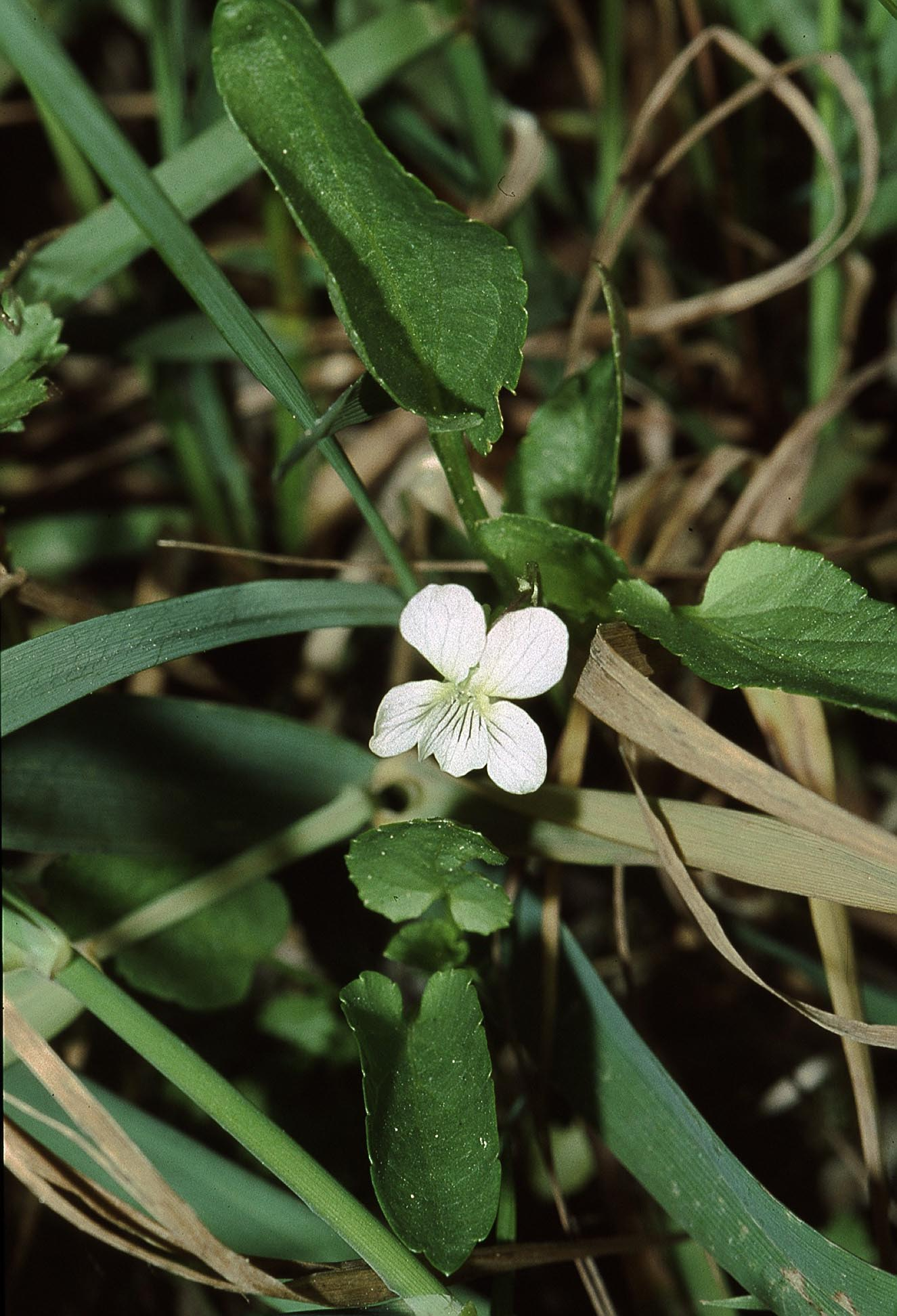 Viola stagnina Photographed by myself in 1990, Unterfranken, Germany